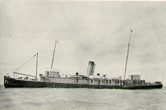 The CGS Minto